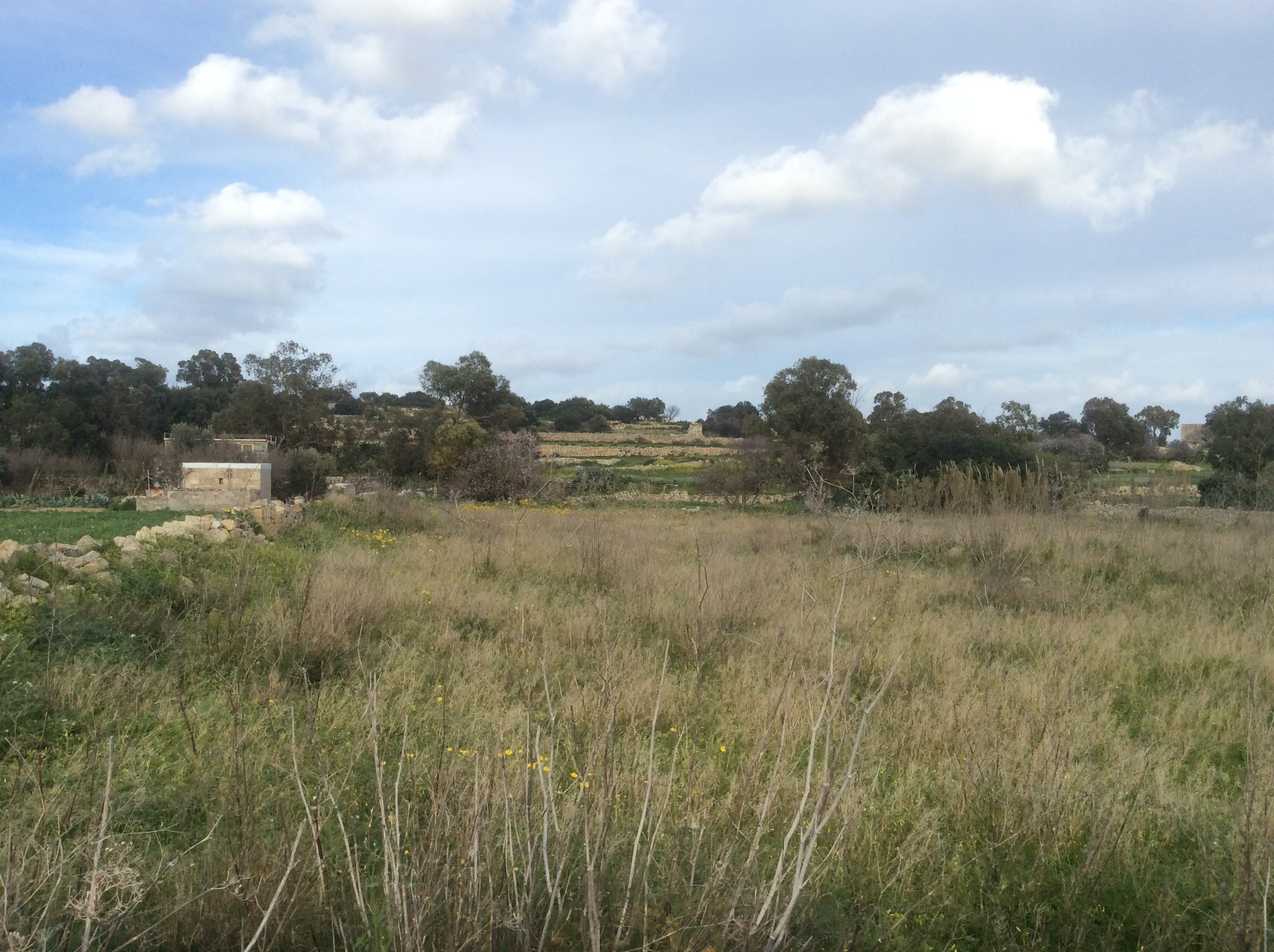 Zejtun farmlands